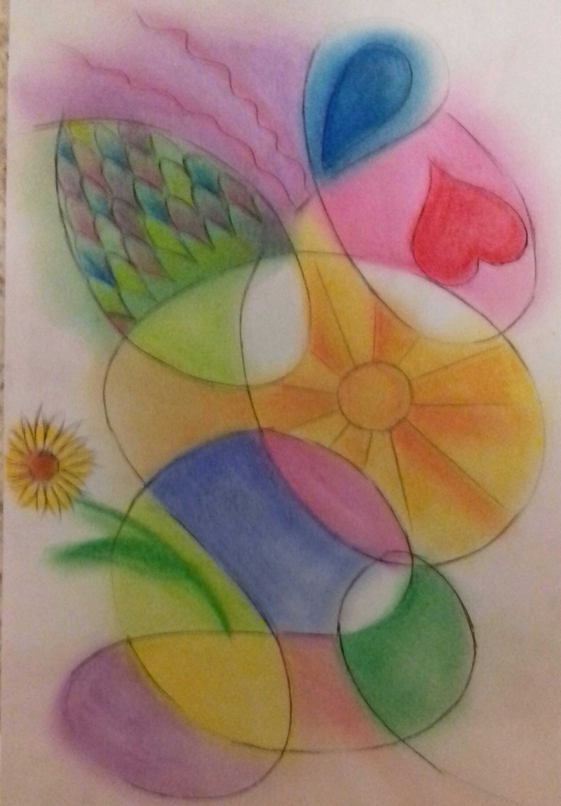 This is an example of how an auragraph may appear. Auragraphs are unique to the individual subject. This has been presented on standard A4 paper 8.3 x 11.7 inches